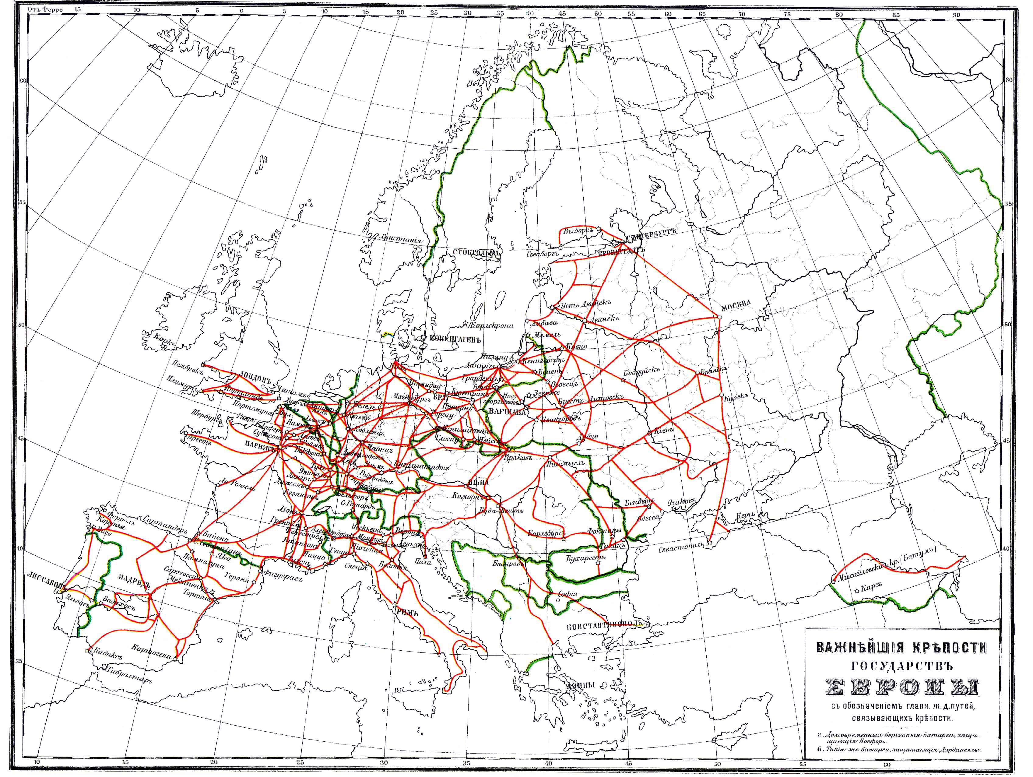 Illustration from Brockhaus and Efron Encyclopedic Dictionary (1890—1907)